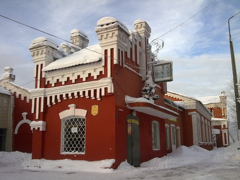 Paper factory in Dobruš.